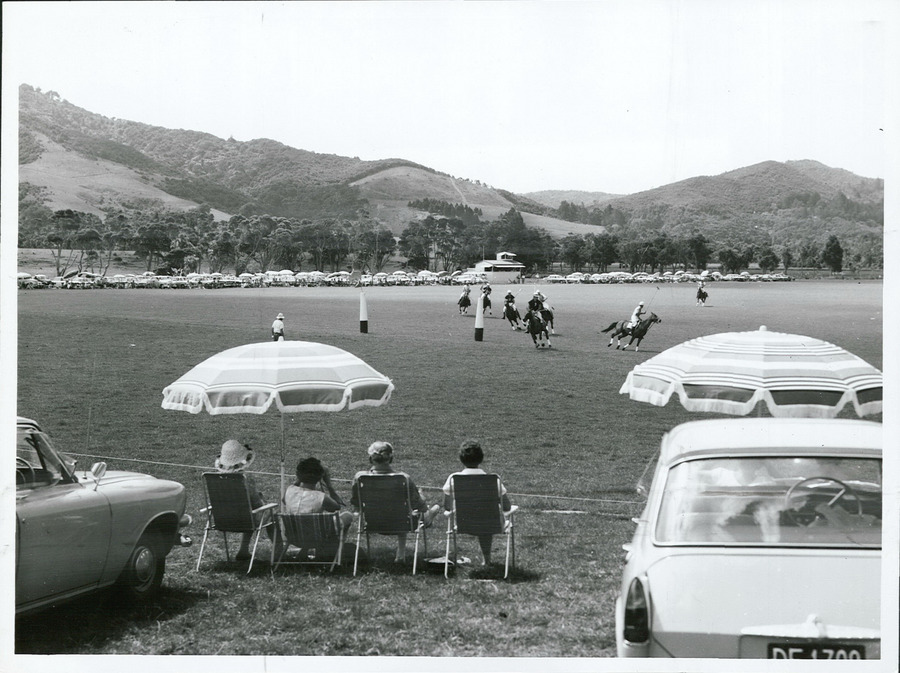 Title: Sports - Polo Publicity Caption: Auckland Polo Club. Polo at Clevedon. Photographer: Mr Riethmaier. January 1968, Auckland Archives New Zealand Reference: AAQT 6539 W3537 79 / A84979 For further enquiries please Material from Archives New Zealand Te Rua Mahara o te Kāwanatanga